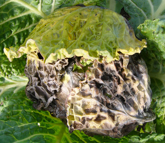 Hyaloperonospora brassicae on cabbage (Brassica oleracea). Locality: CZ, Moravia, Olomouc, Bělidla, garden.